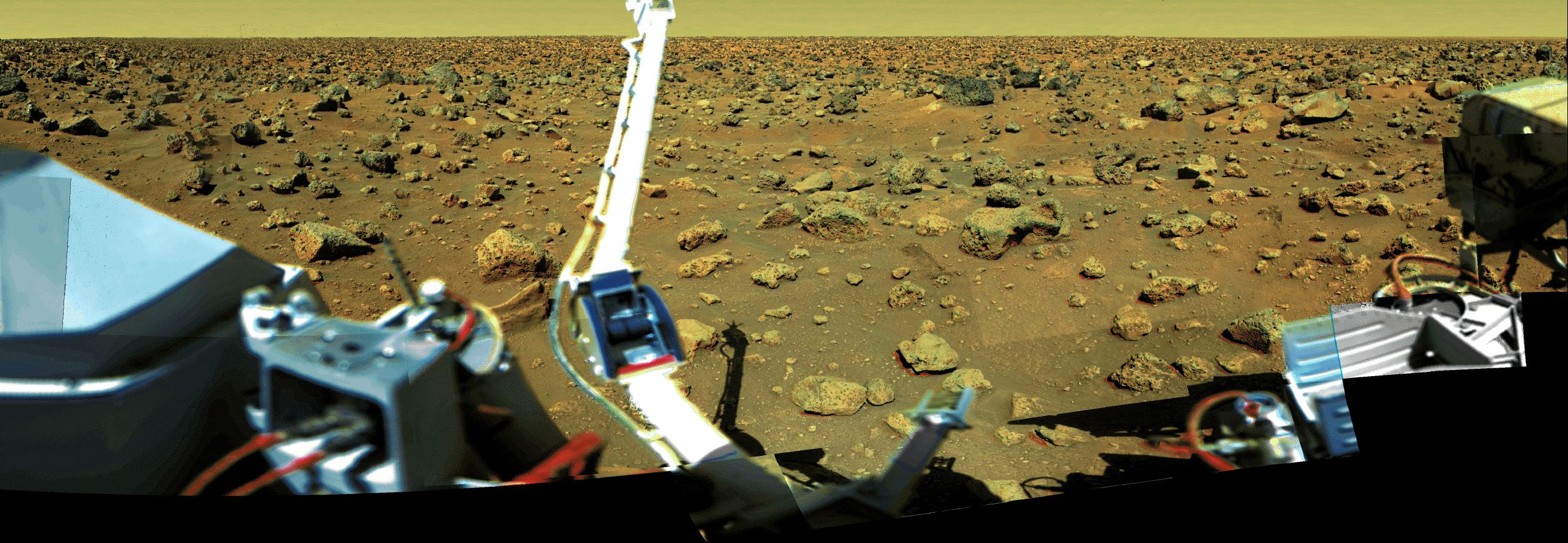 Viking 2 panorama of the Martian surface - 1976.